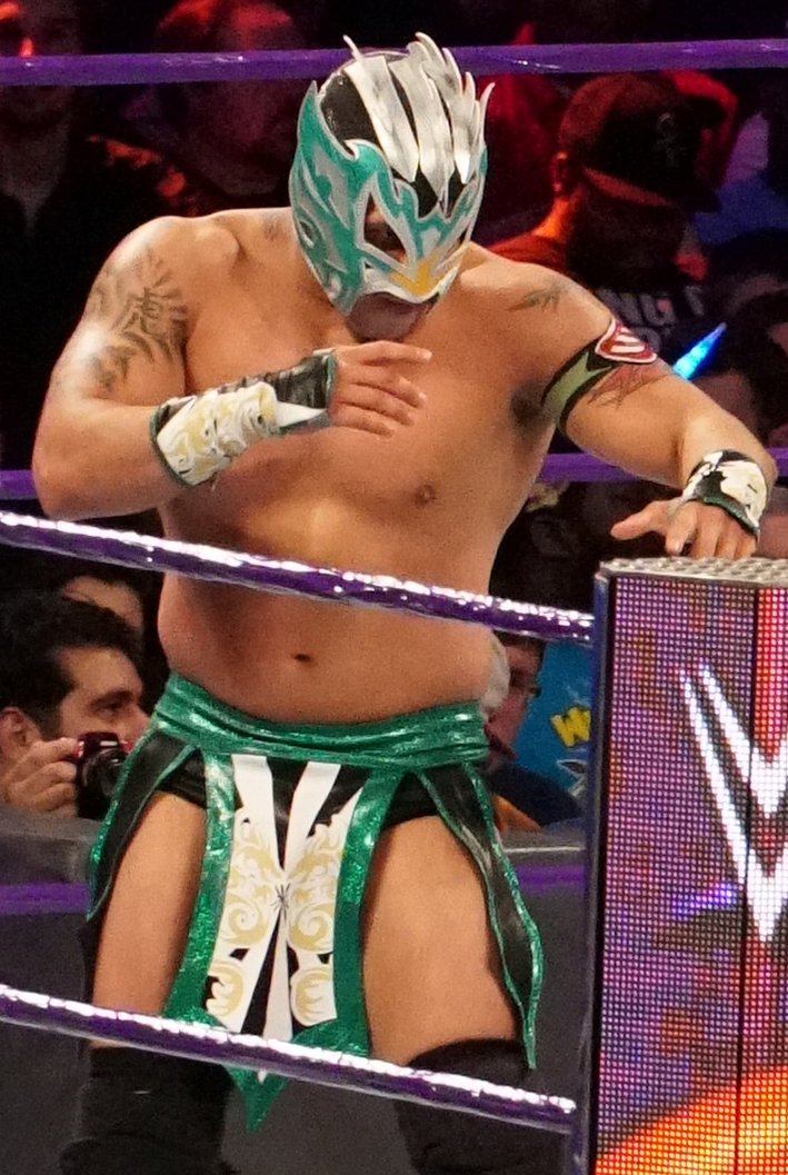 Kalisto in 205 Live